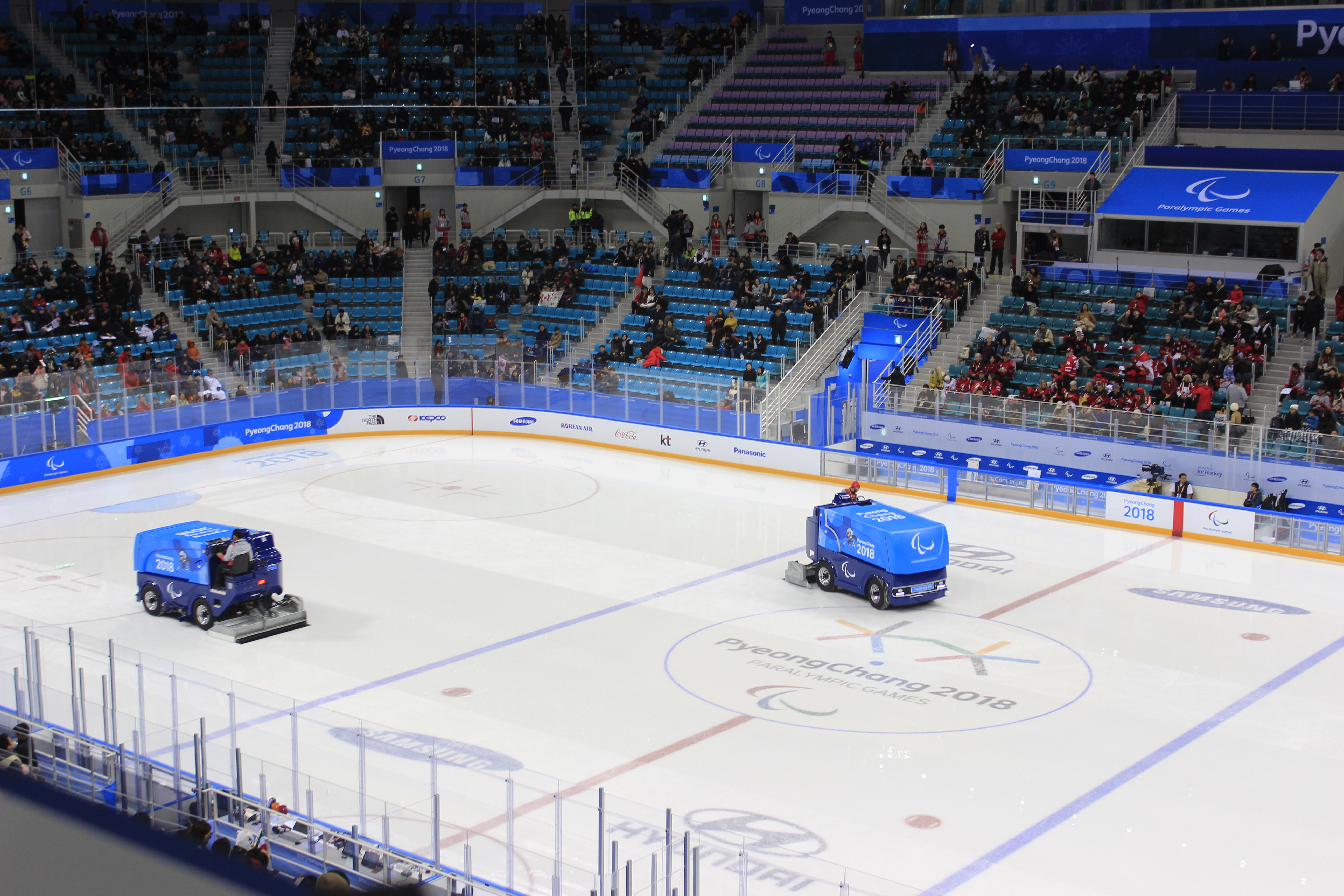 2018 Paralympics Gangneung Hockey Center